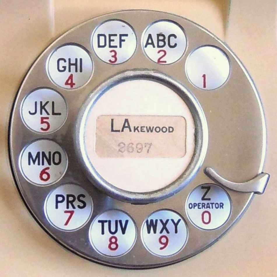 This image shows the front of a rotary telephone dial of ca. 1940 with its original number card displaying a telephone number (LA-2697) issued in Lakewood, NJ (USA). The telephone is a 1939 Western Electric Type 302G-4.